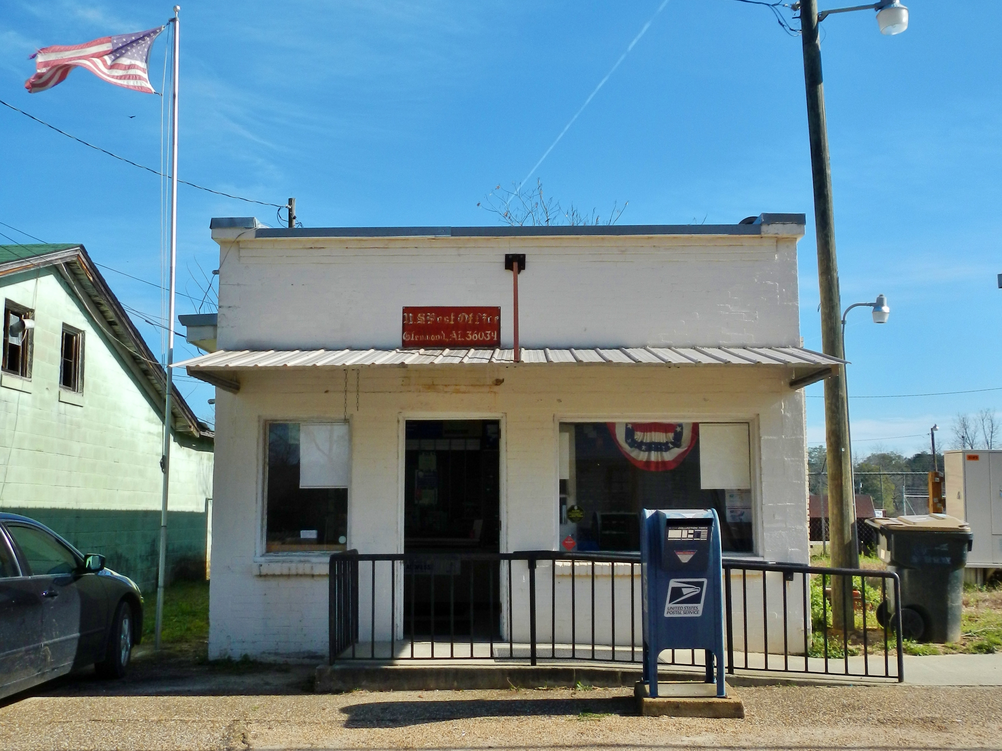 This is a photograph of the post office in Glenwood, Alabama. The ZIP code is 36034.